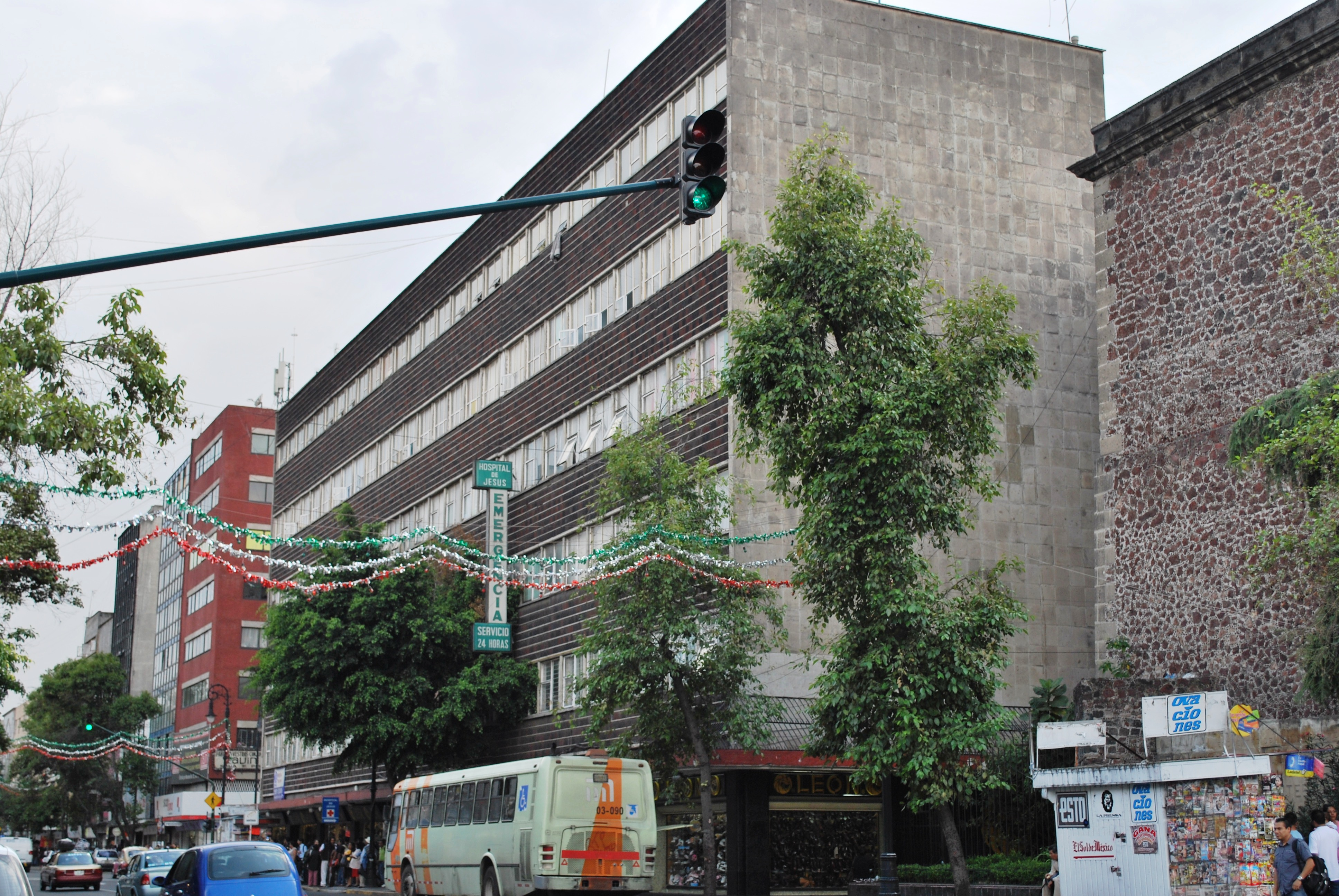 Hospital de Jesus on Pino Suarez Street in the historic center of Mexico City